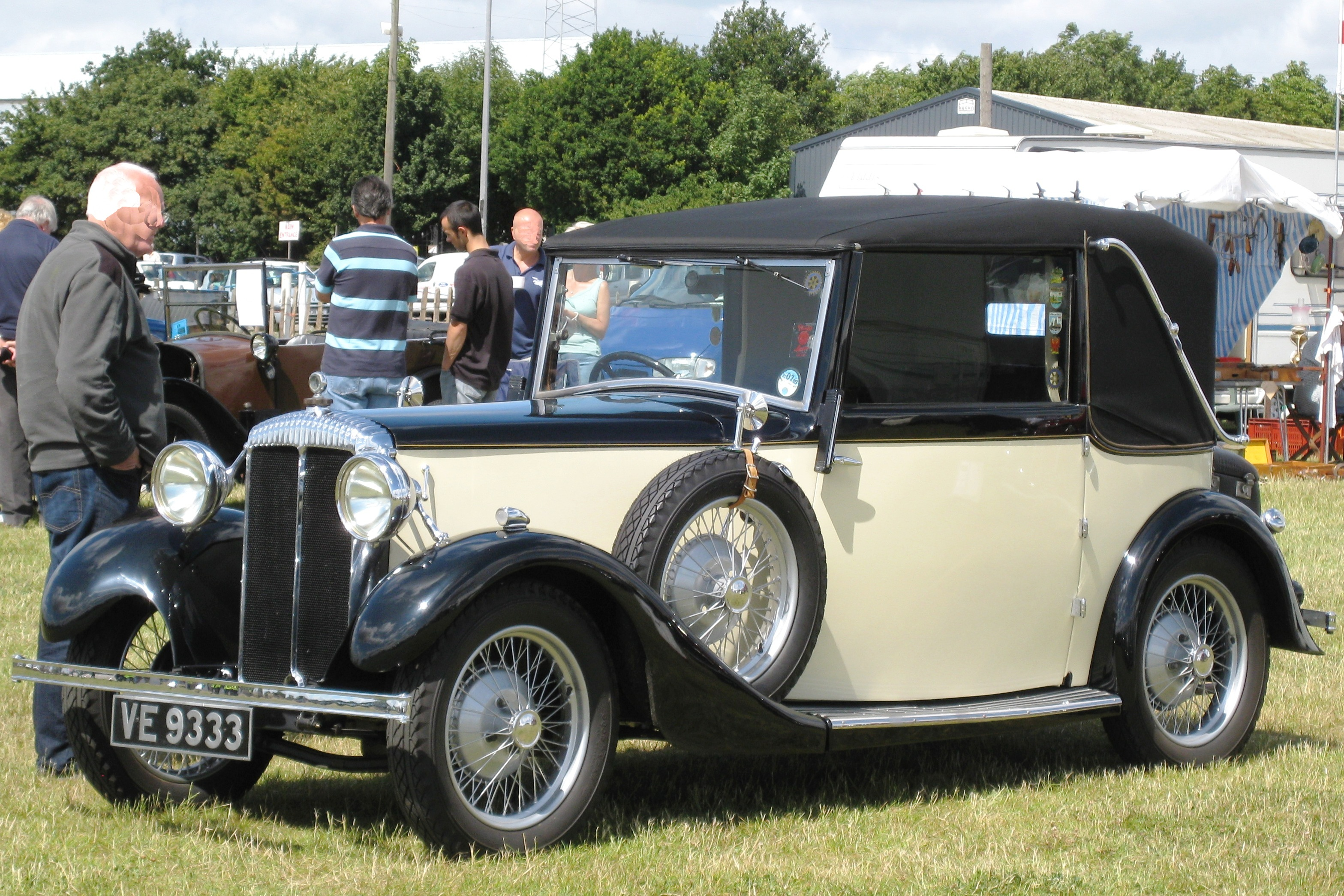 Daimler Fifteen Six-cylinder. Light cabriolet body. (DVLA) 1939cc first registered 30 September 1933